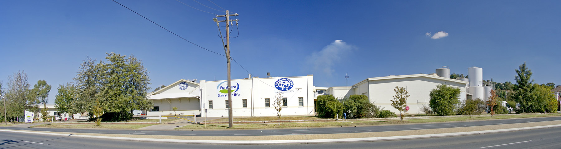 Fonterra (Formerly Murrumbidgee Dairy Products), Riverina Fresh. Wagga Wagga, New South Wales